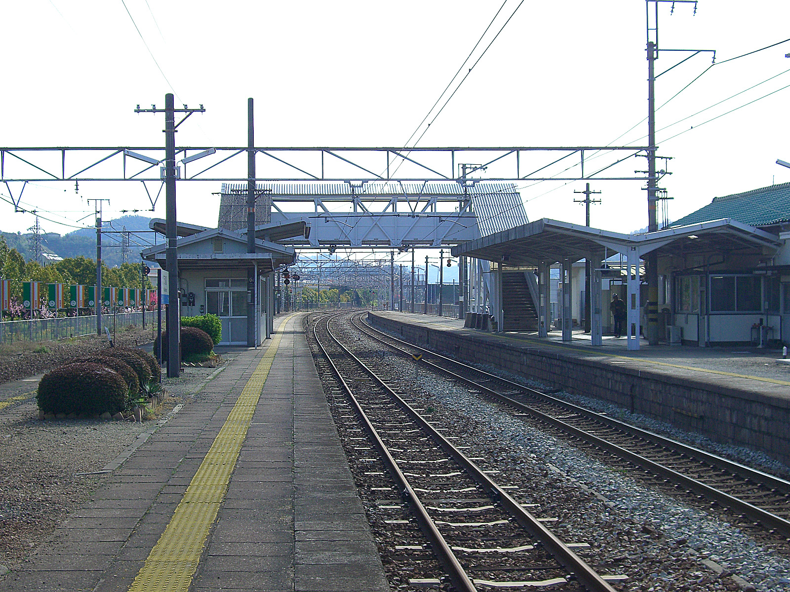 West Japan Railway Sanyō Main Line Mantomi Station Platform